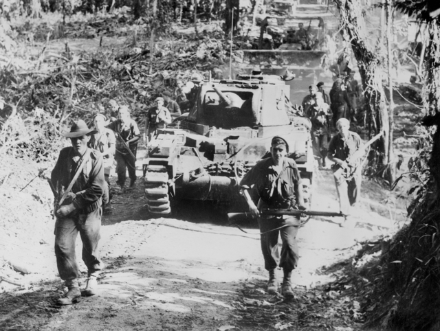 AWM Caption: Bougainville. 30 March 1945. 2/4th Armoured Regiment Australian-manned Matilda tanks advancing along Buin Road over Slater's Knoll, towards the Hongorai River. They are supported by 25 Infantry Battalion troops and a bulldozer. This is the first time tanks have been used in the Bougainville campaign.